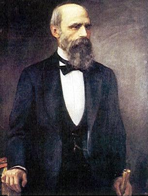 Oil painting of Aquileo Parra, President of the United States of Colombia.